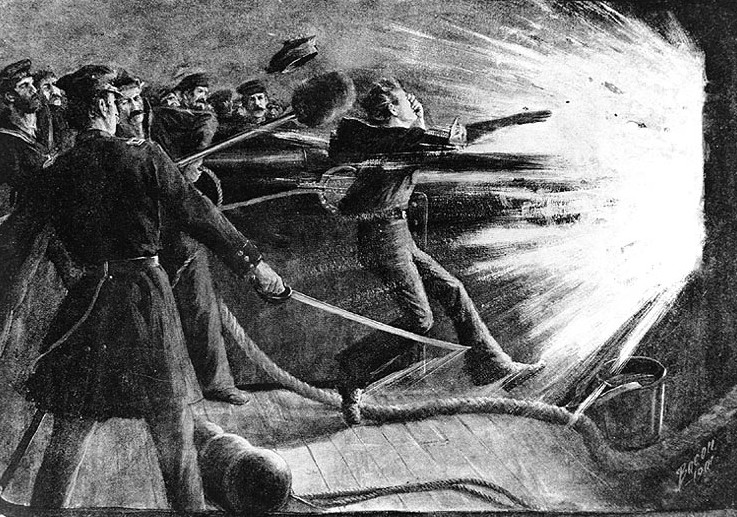 From U.S. Navy public domain Photo #: NH 79922 James K.L. Duncan, Ordinary Seaman, USN Artwork by Bacon, published in "Deeds of Valor", Volume II, page 54, by the Perrien-Keydel Company, Detroit, 1907. It depicts Ordinary Seaman Duncan throwing a burning cartridge overboard on USS Fort Hindman, after it was set afire by an exploding shell. He was awarded the Medal of Honor for heroism in this incident, which took place during an engagement with an enemy battery near Harrisonburg, Louisiana, on 2 March 1864. James K.L. Duncan was born at Frankfort, PA, in 1845. U.S. Naval Historical Center Photograph.